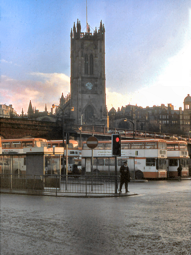 Victoria Bus Station & Manchester Cathedral in Manchester, as viewed from Chapel Street. The bus station closed in 1986 when the bus services were deregulated and has since been replaced by a car park. The buses belong to Greater Manchester Transport, and are largely GM Standard double-deckers, with an older half cab design in the middle, and a 33-foot "Mancunian" second from right.